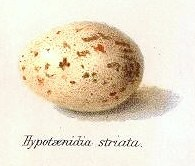 Hypotaenidia striata = Gallirallus striatus (Slaty-breasted Rail)